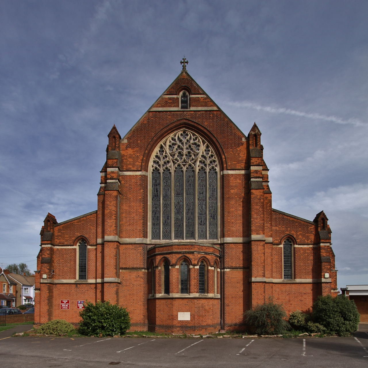 St Hilda's parish church, Woodthorpe Road, Ashford, Middlesex, seen from west south-west